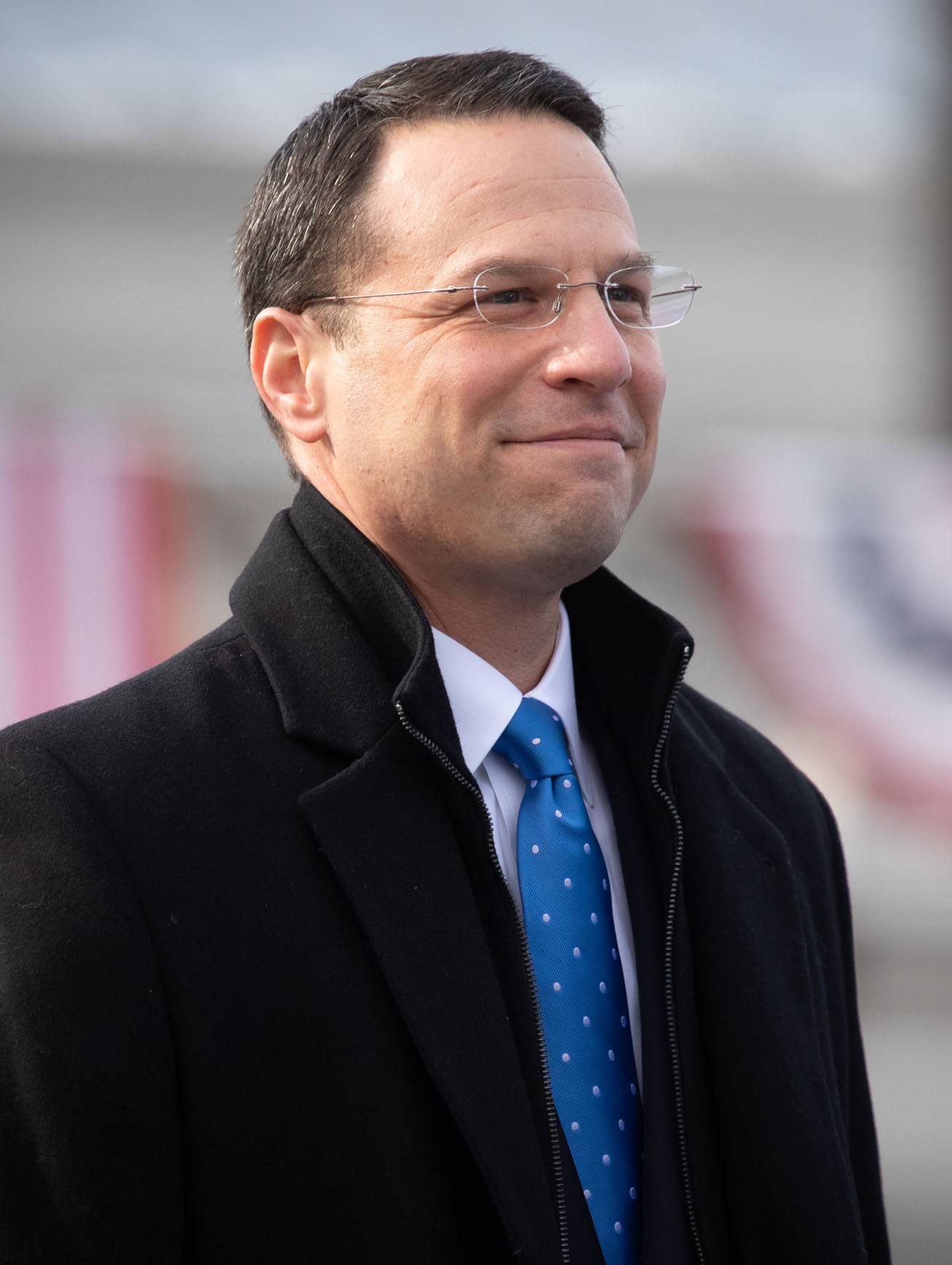 January 15, 2019 Harrisburg, PA